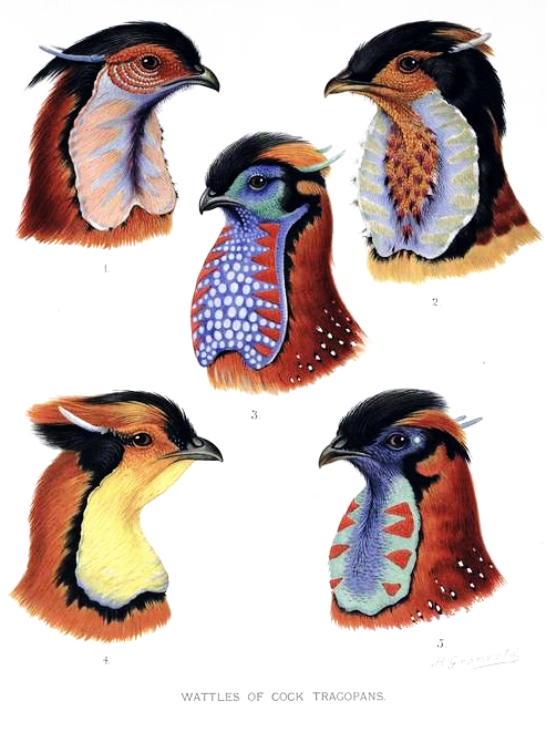 Tragopan wattles: Fig. 1. Wattle of Western Tragopan (Tragopan melanocephalus) Fig. 2. Wattle of Cabot's Tragopan (Tragopan caboti) Fig. 3. Wattle of Temminck's Tragopan (Tragopan temminckii) Fig. 4. Wattle of Blyth's Tragopan (Tragopan blythii) Fig. 5. Wattle of Satyr Tragopan (Tragopan satyra)